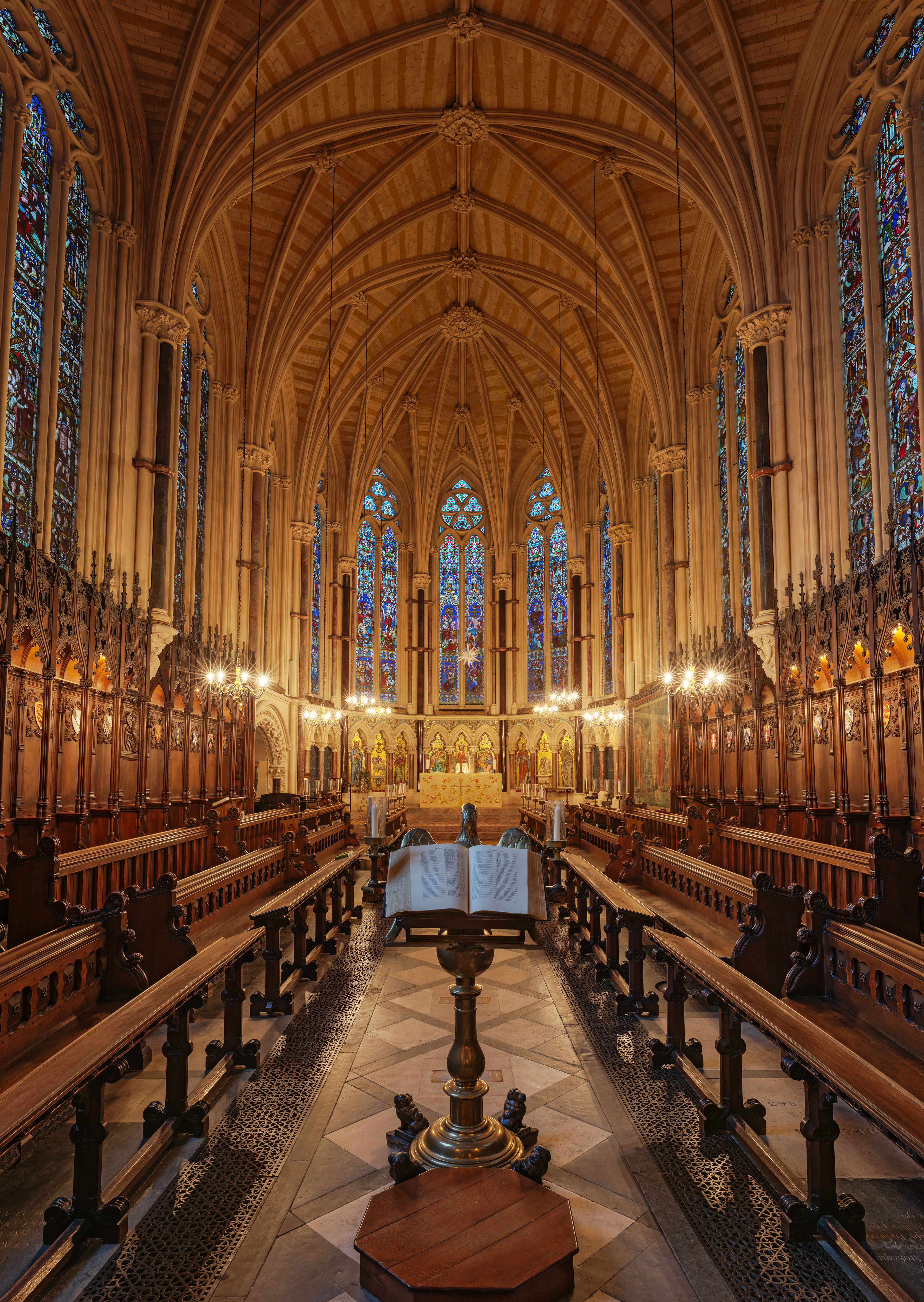 Exeter College Chapel, Oxford, England